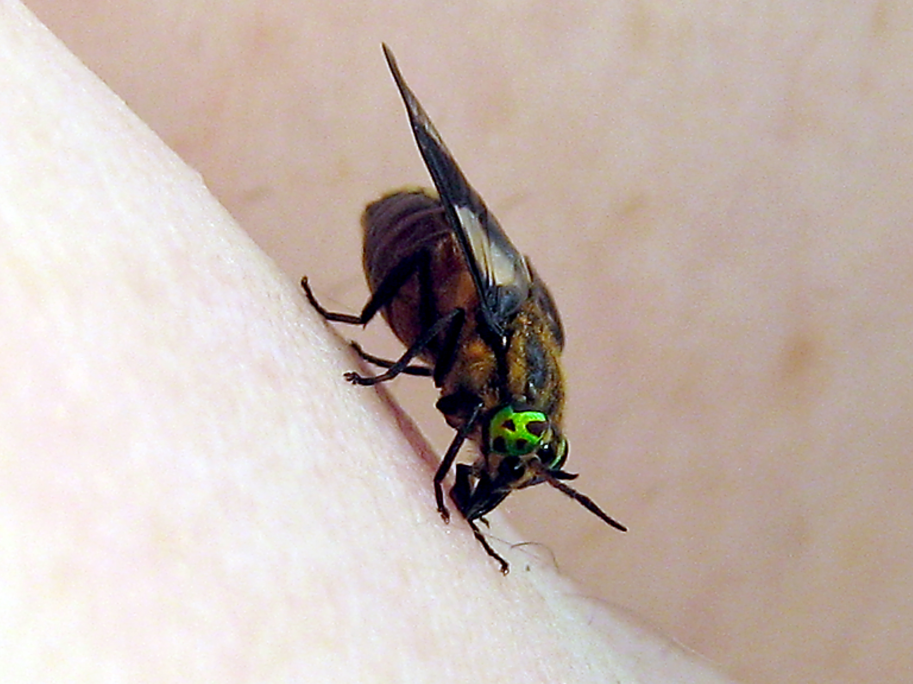 Insect